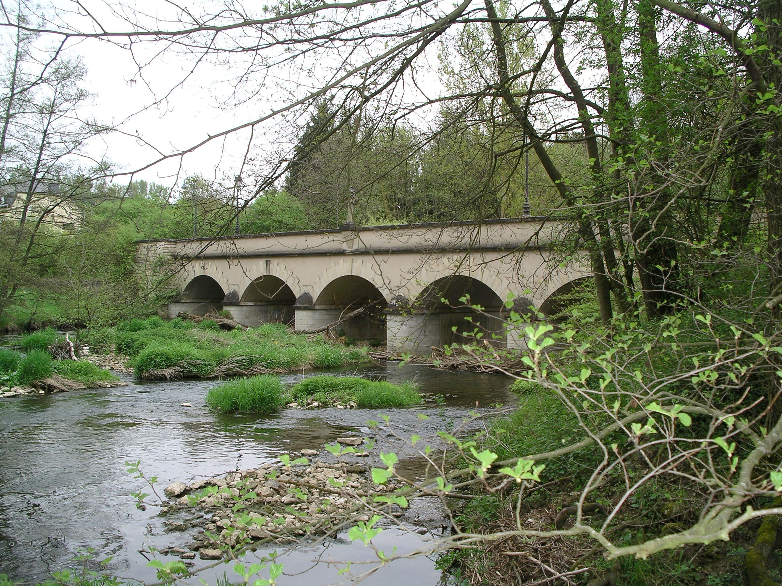 Bridge over the Syre river in Manternach, village in Luxembourg